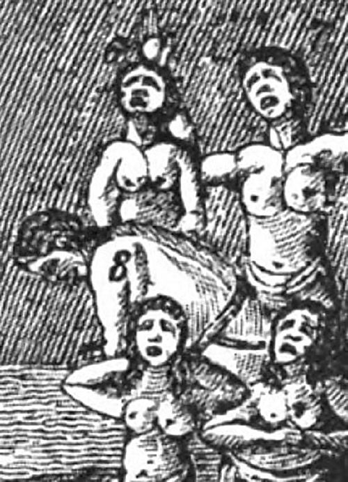 Lamentations for Keopuolani (1823); 6. Wahinepio, sister of Karaimoku 7. Kalakua, mother of Kamehamaru 8. Kaiko, near relative of Keopuolani. The two unidentified ladies on the right could be the other wives of Kamehameha II, or Kaikio's female relatives, or female retainers.